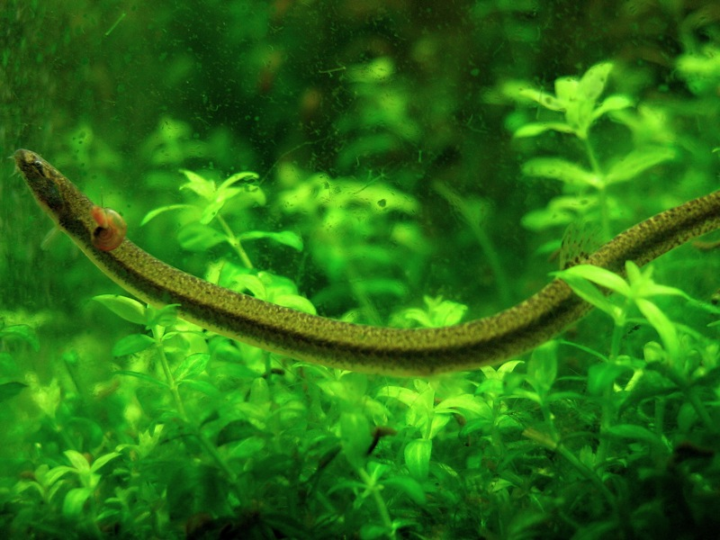 Pangio muraeniformis. I bought three of these a few weeks ago. They mostly hide during the day, but every now and then they'll come out and wiggle around the tank.